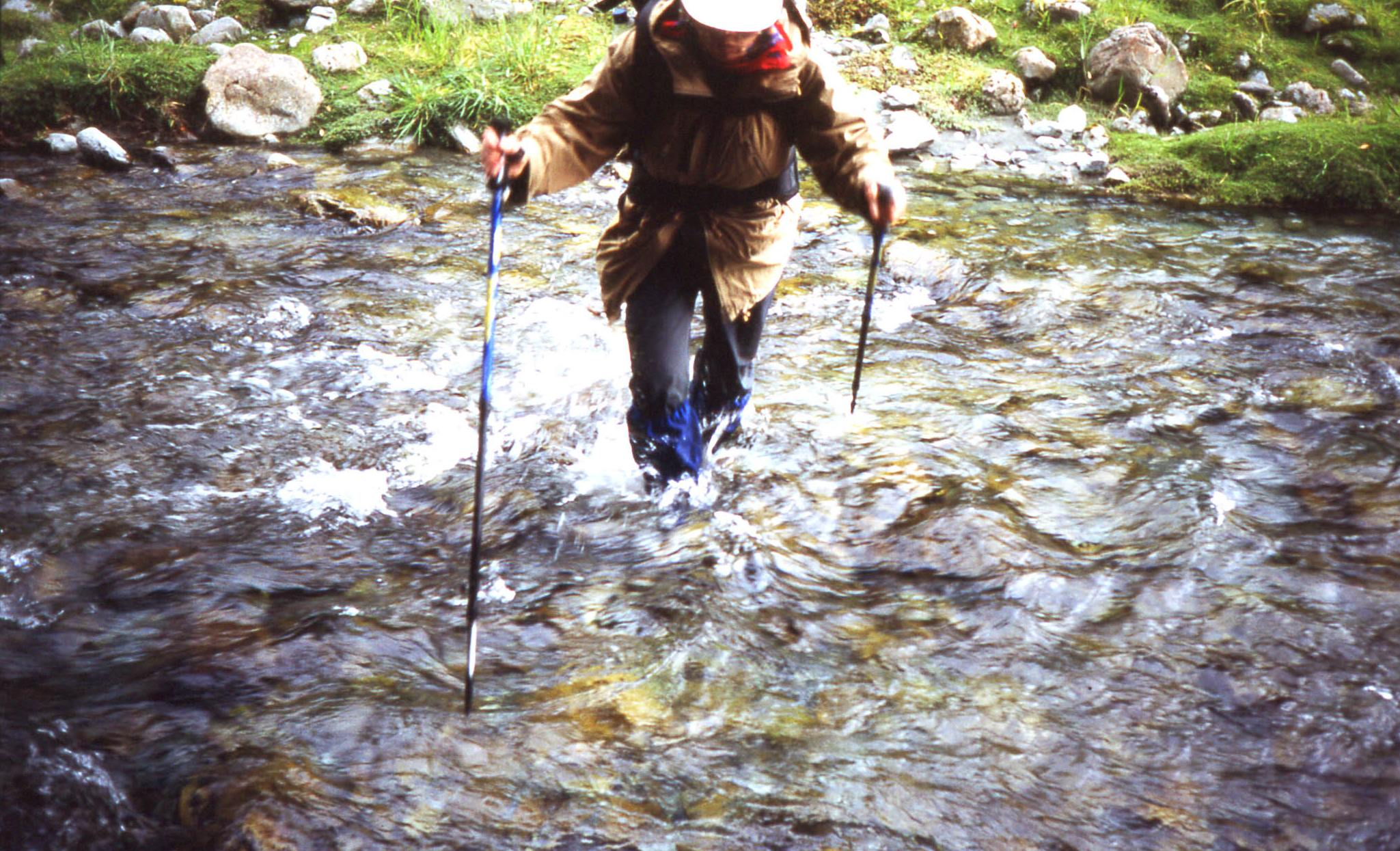 Crossing a small river tributaring to the Taipo River in Arthur's Pass NP, New Zealand